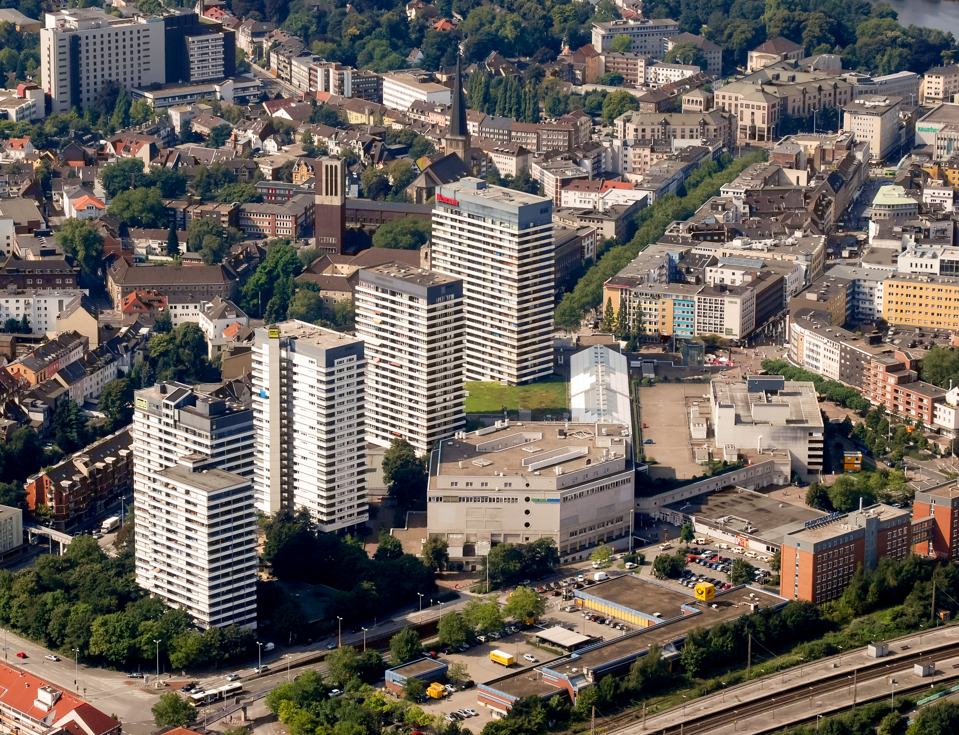 Aerial view of Mülheim an der Ruhr from northeast